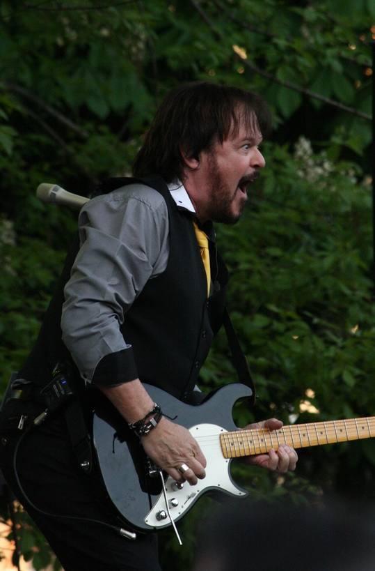 Ádám Végvári.